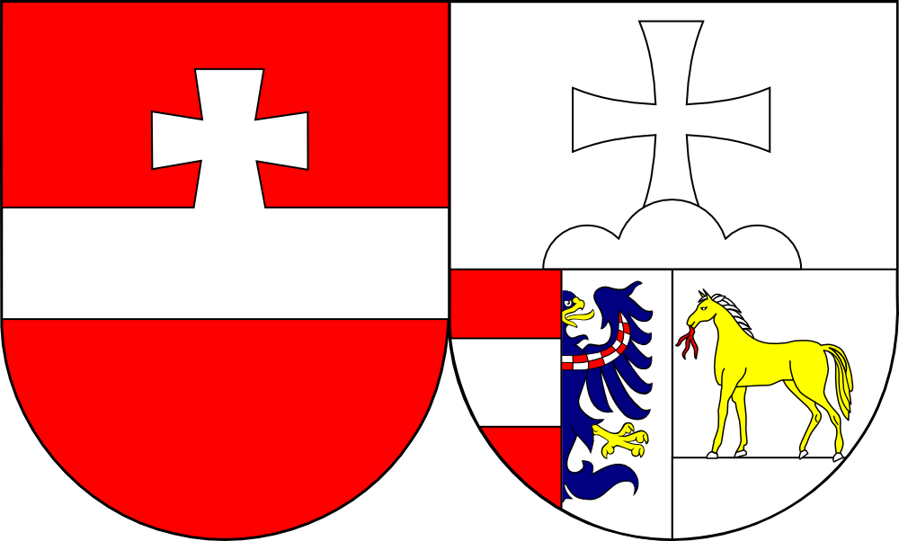 Coat of arms (shield only) of Jurij Slatkonja (Georg von Slatkonia), bishop of Pićan, Croatia (1513), bishop of Vienna (1513 - 1522). Based on his epitaph.